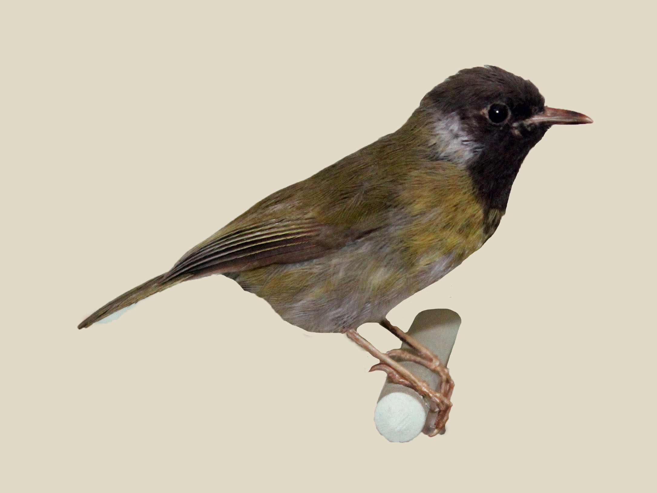 Masked Apalis (Apalis binotata). Photograph of a specimen at Nairobi National Museum in Nairobi, Kenya.